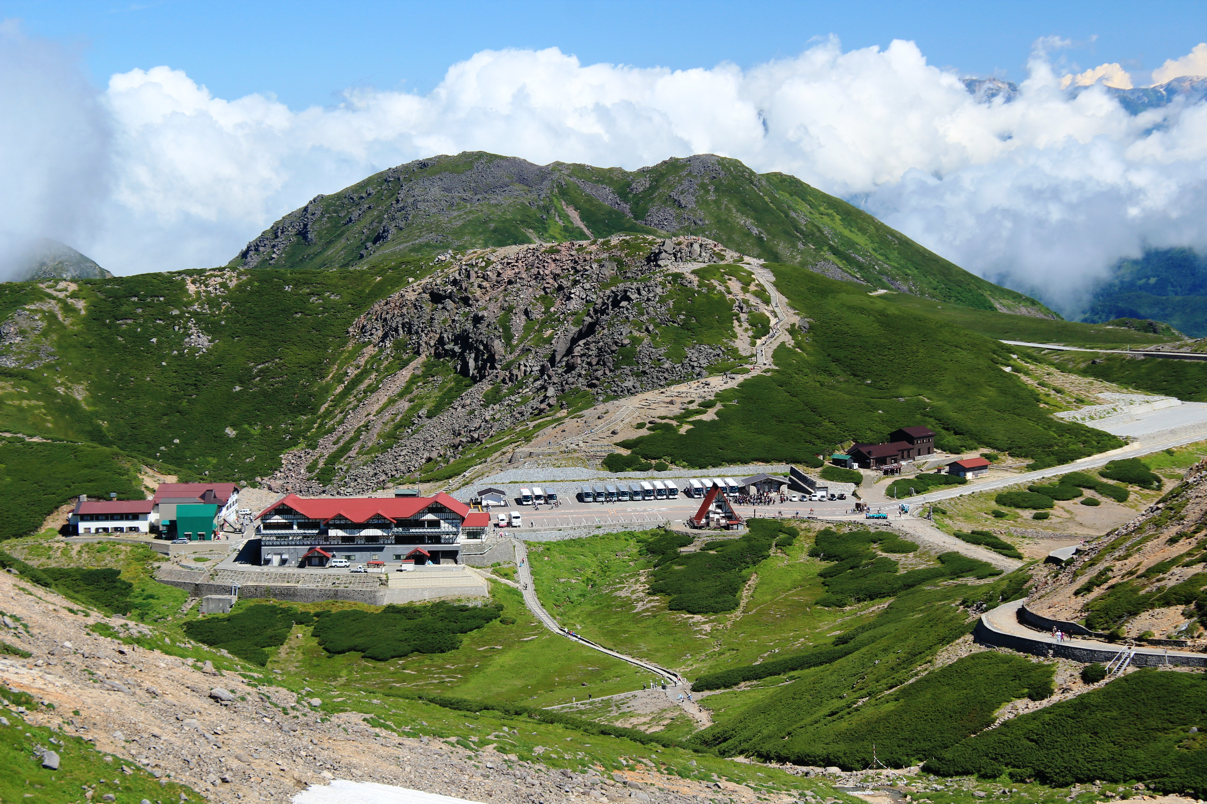 Tatamidaira in Mount Norikura, Takayama, Gifu pref., Japan.